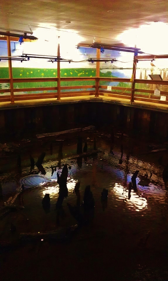 The wet room at Flag Fen in Cambridgeshire, Eastern England, in which the humidity and water levels are specially controlled to preserve the Bronze Age timbers.